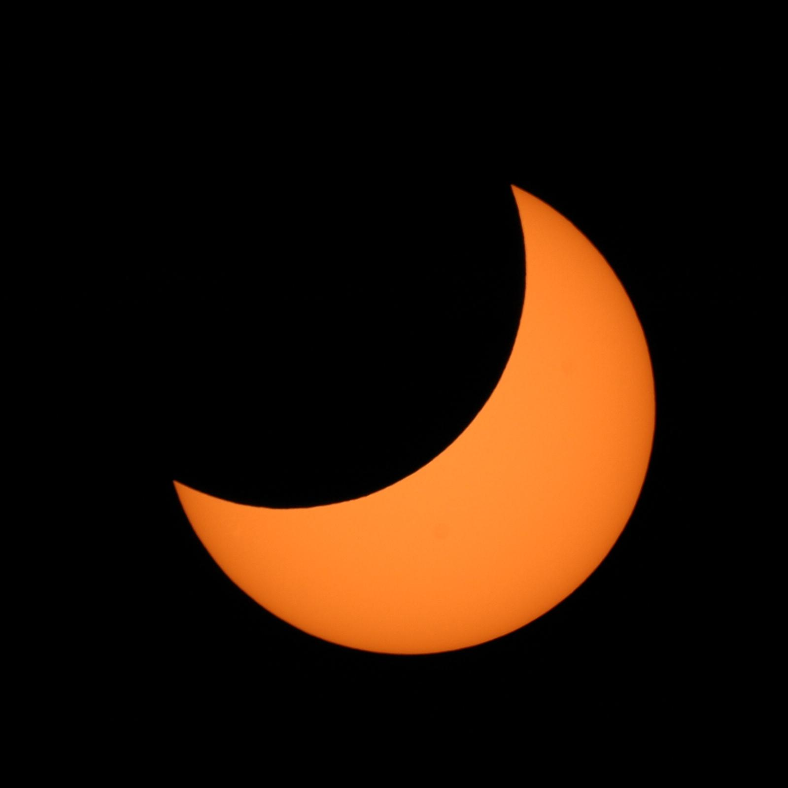 Solar eclipse of February 7, 2008 From: Christchurch, New Zealand (approx. 43.5 S, 172.5 E).